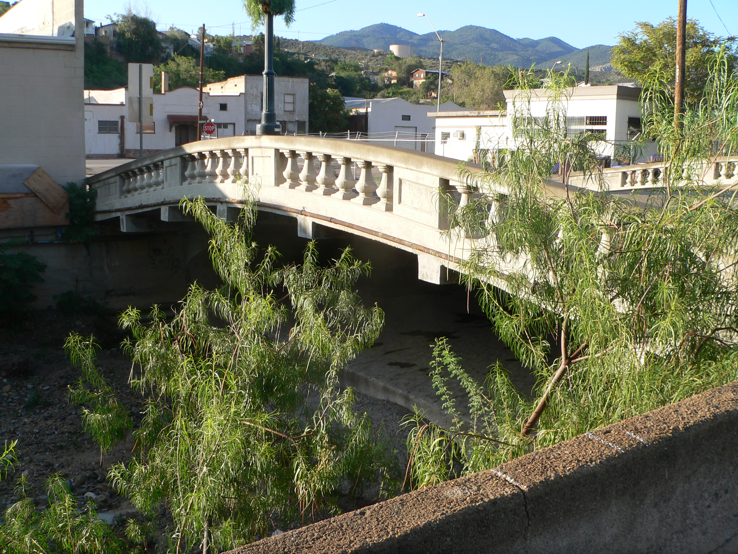 Bridge carrying Inspiration Avenue over Bloody Tanks Wash in Miami, Arizona; seen from the north. Downstream is northeast (left).